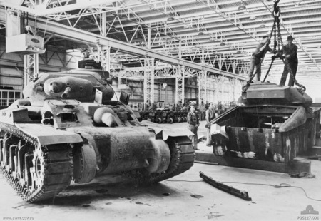 Australian War Memorial image P06227.001. The final assembly shop for AC1 Sentinel tanks at the Government Annexe, New South Wales Government Railway workshops, Chullora.